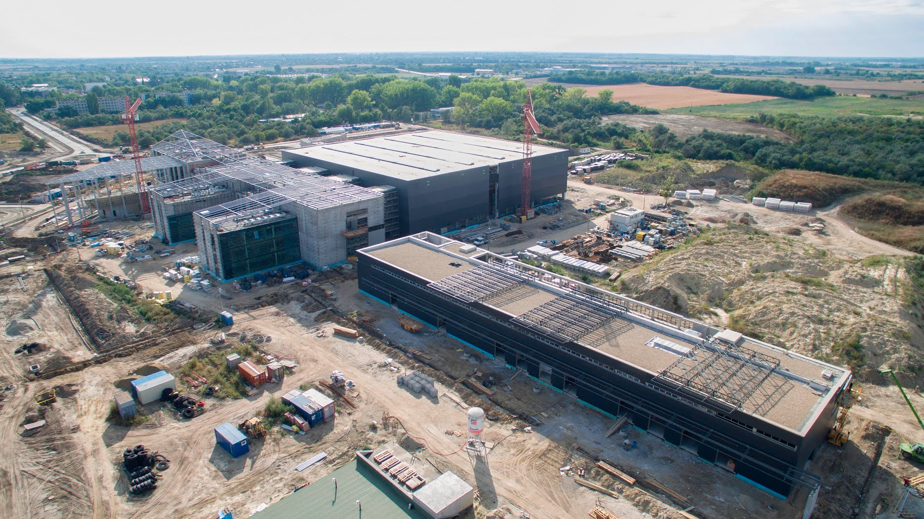 The ELI-ALPS (Extreme Light Infrastructure - Attosecond Light Pulse Source) research center under construction, Szeged, 2017